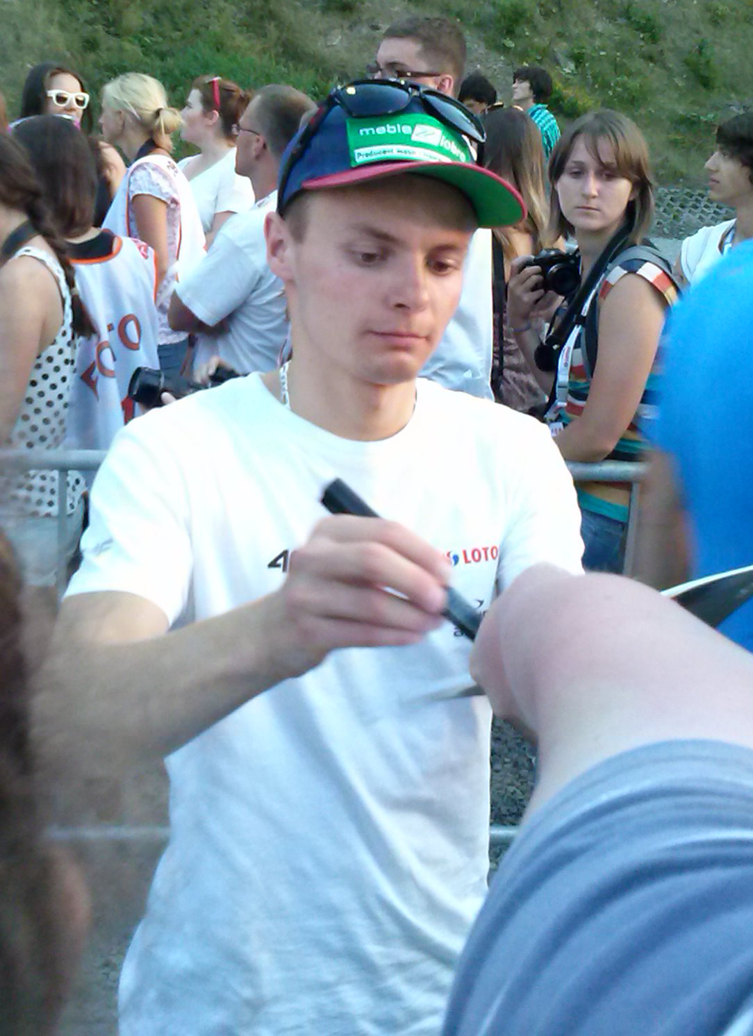 Jan Ziobro - polish ski jumper during FIS Summer Grand Prix 2013 in Wisła.